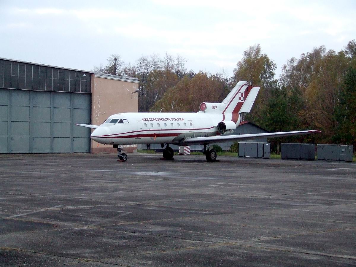 Yakovlev Yak-40 (Jak-40) used by polish goverment, picture taken on Warszawa Babice airfield (engine cover is open)